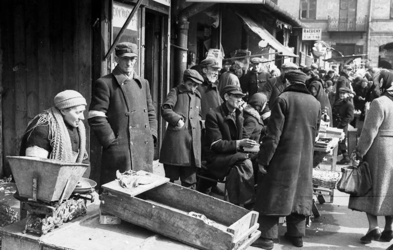 Warsaw Ghetto: Market between buildings at Leszno 42 and Nowolipie 35.